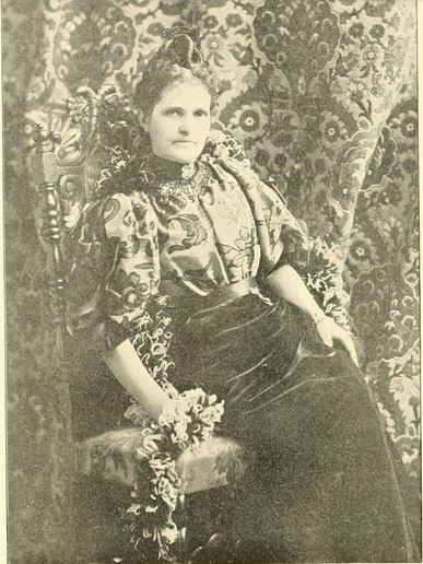 Mrs. William J. White